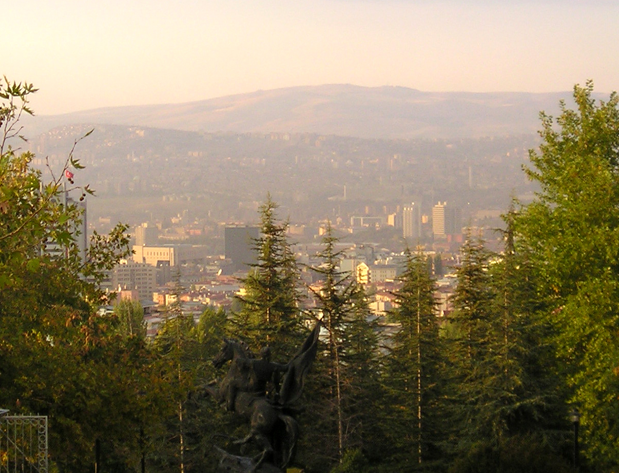 View of Ankara from the botanical garden. Photo by Bertil Videt